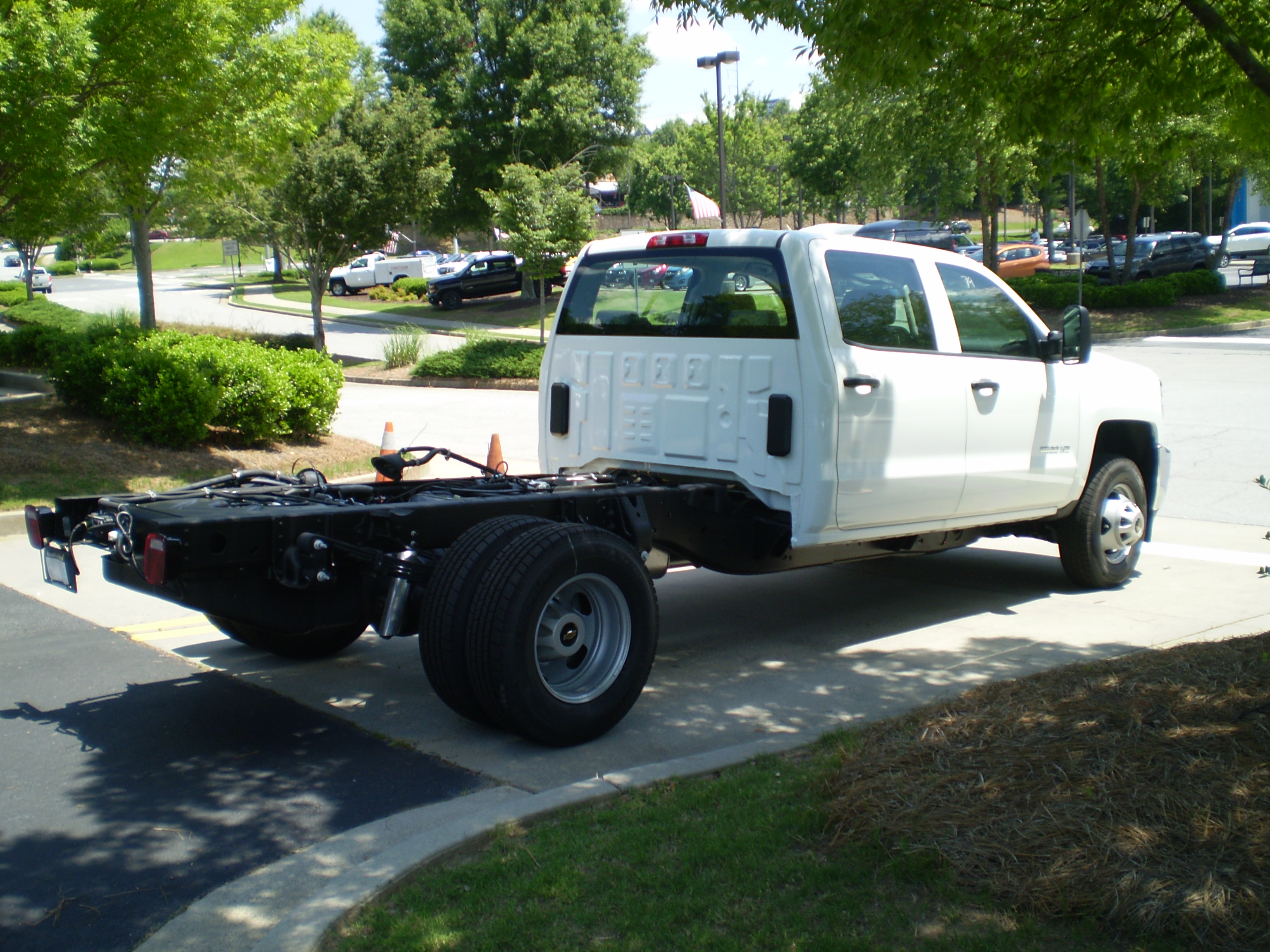 2015 Chevrolet Silverado 3500 HD Crew Cab Chassis WT (Reverse) Final Assembly Location: Flint Truck Assembly, Flint, MI, USA Verify by VIN Information.